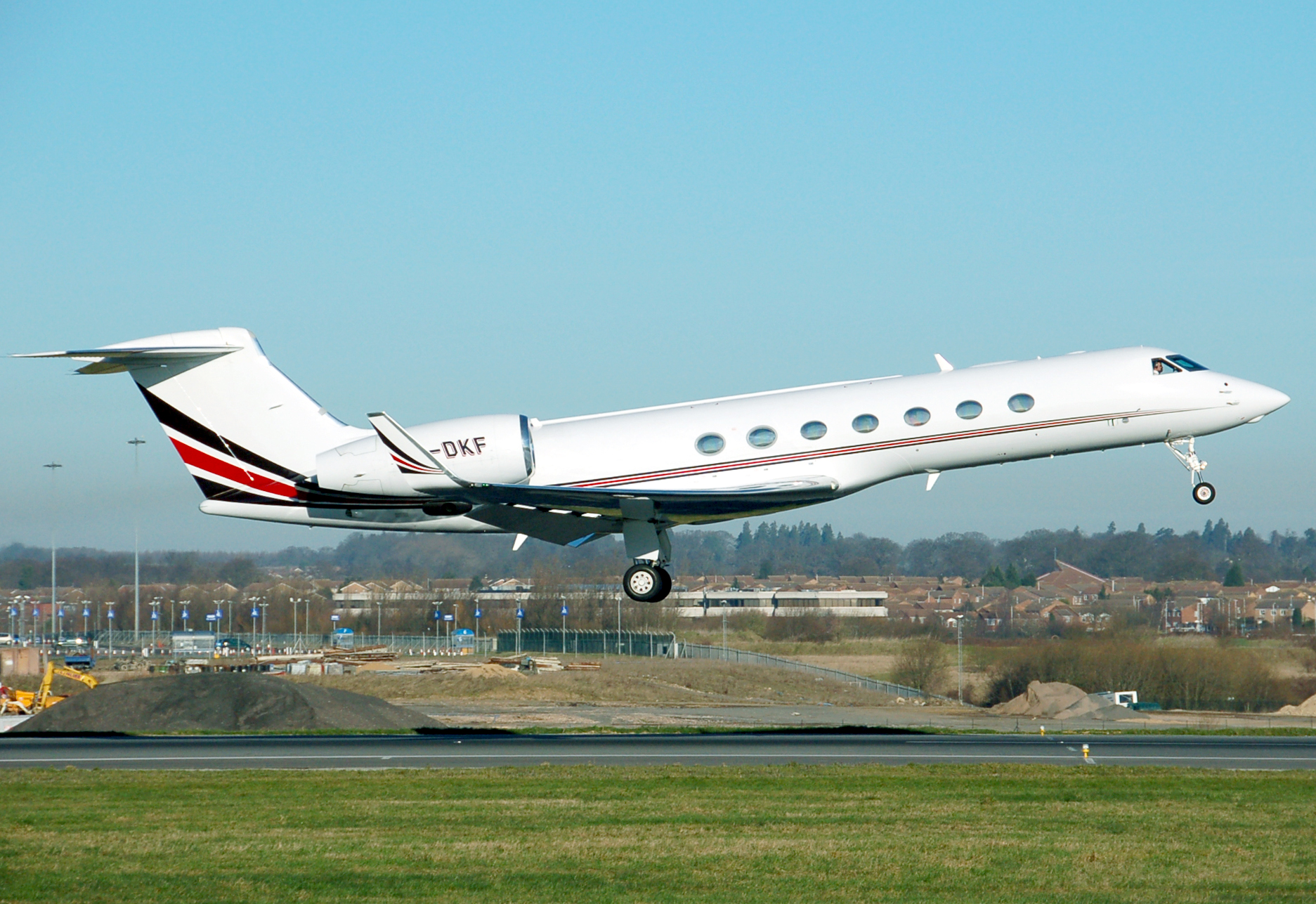 Gulfstream Aerospace Corporation Gulfstream G550 (CS-DKF) business jet takes off from London Luton Airport, England. Operator: Netjets Europe. Photographed by Adrian Pingstone in February 2007 and released to the public domain.